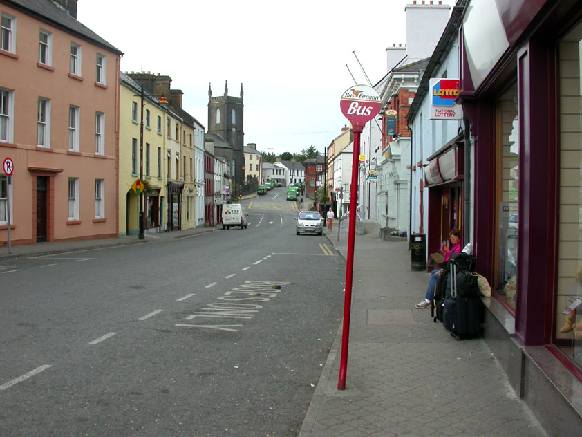 Ellision Street, Castlebar, Co. Mayo, Ireland. Church Street can be seen in the background. The church shown is Christ's Church (a Church of Ireland church). (NB: Street shown is NOT Main Street.)